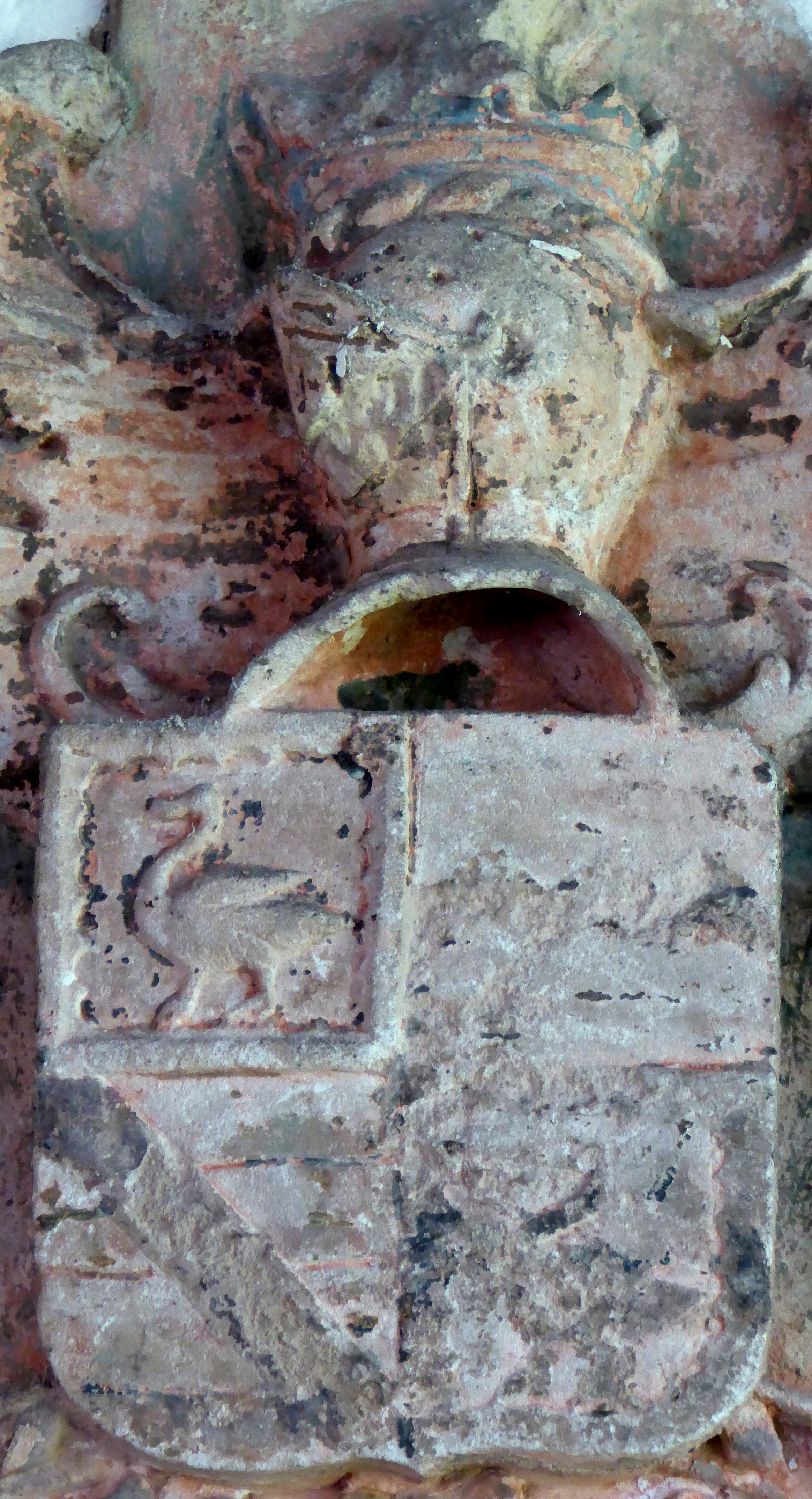 Detail from top of mural monument north side of chancel Broadhembury Church, Devon, to Sir Edward More (c.1555–1623) of Odiham in Hampshire, a Member of Parliament. One of his two daughters and co-heiresses was Elizabeth More, who married Sir Thomas Drewe (d.1651) of The Grange in the parish of Broadhembury in Devon, Sheriff of Devon in 1612. Although the inscription is erased he can be identified by the top escutcheon which shows in the first of four quarters the arms of More: Sable, a swan argent a bordure engrailed or. The other two escutcheons lower down are totally blank/effaced. His will (transcript of will of Sir Edward More, dated 24 April 1623 (National Archives PROB 11/141/530)[1]) requested burial in the chancel of Odiham Church. It thus appears that this monument was erected by his daughter Elizabeth Drewe.